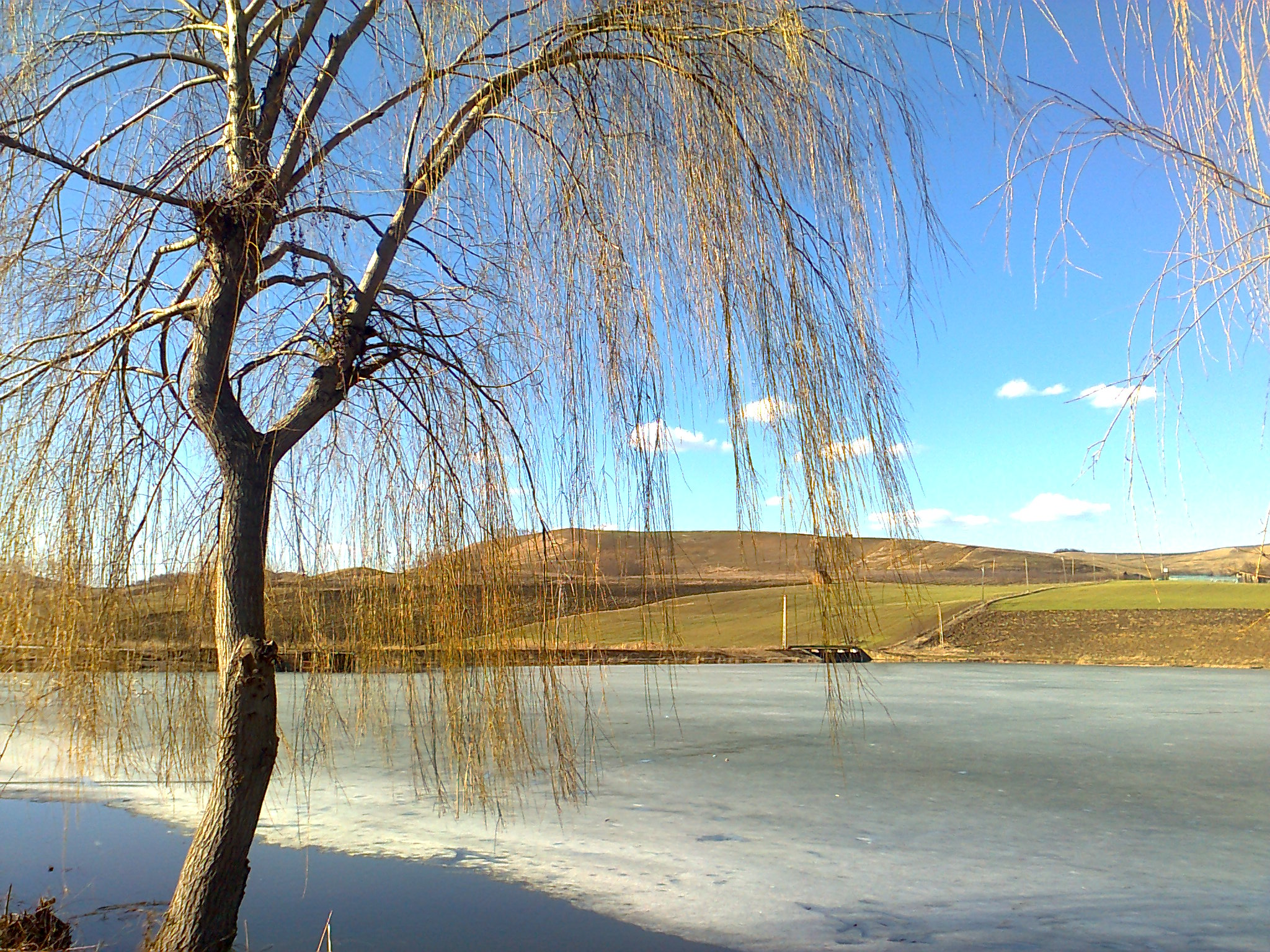 Fishpond in Saulia (Mures County, Romania)